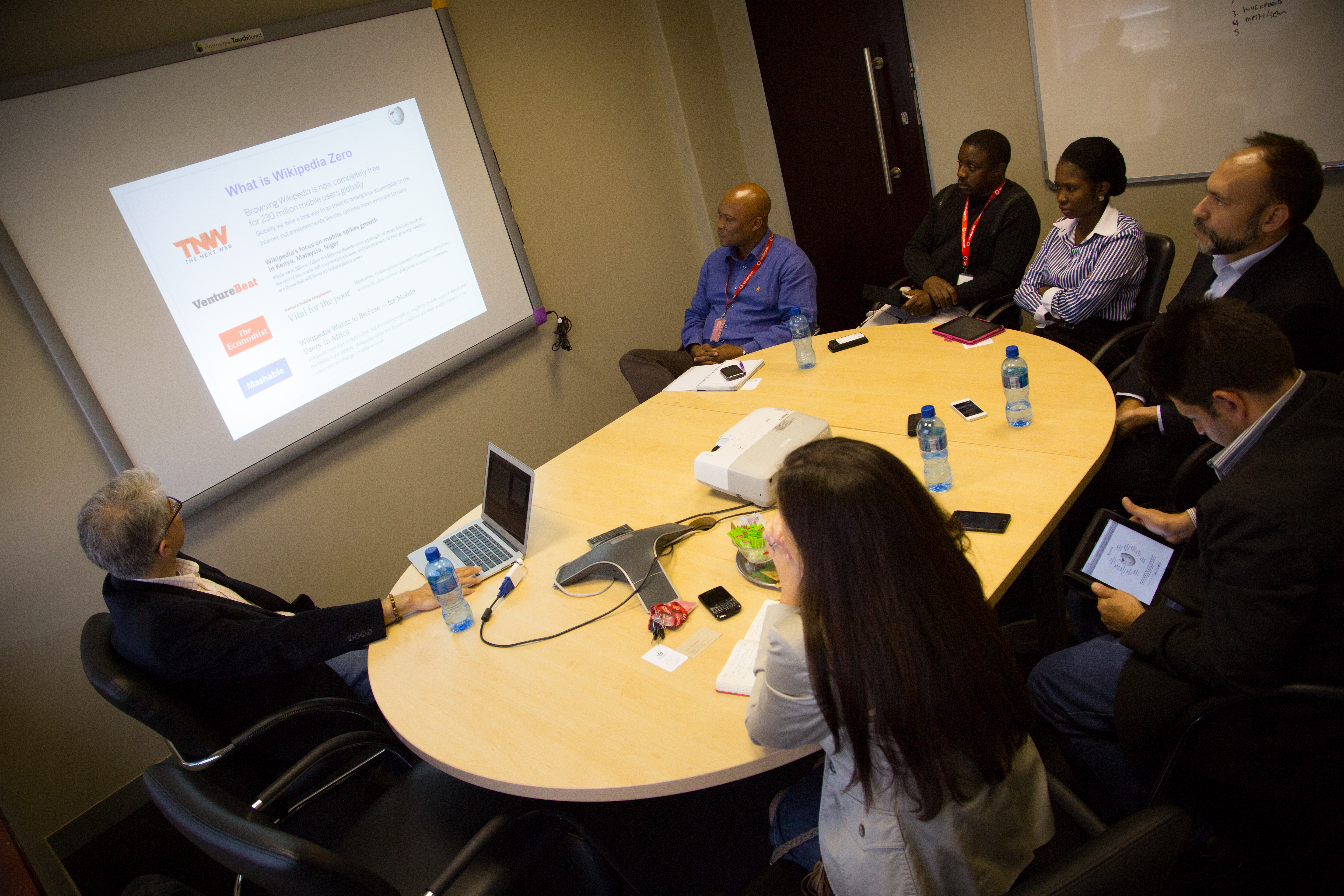 Wikipedia Zero Campaign in Africa